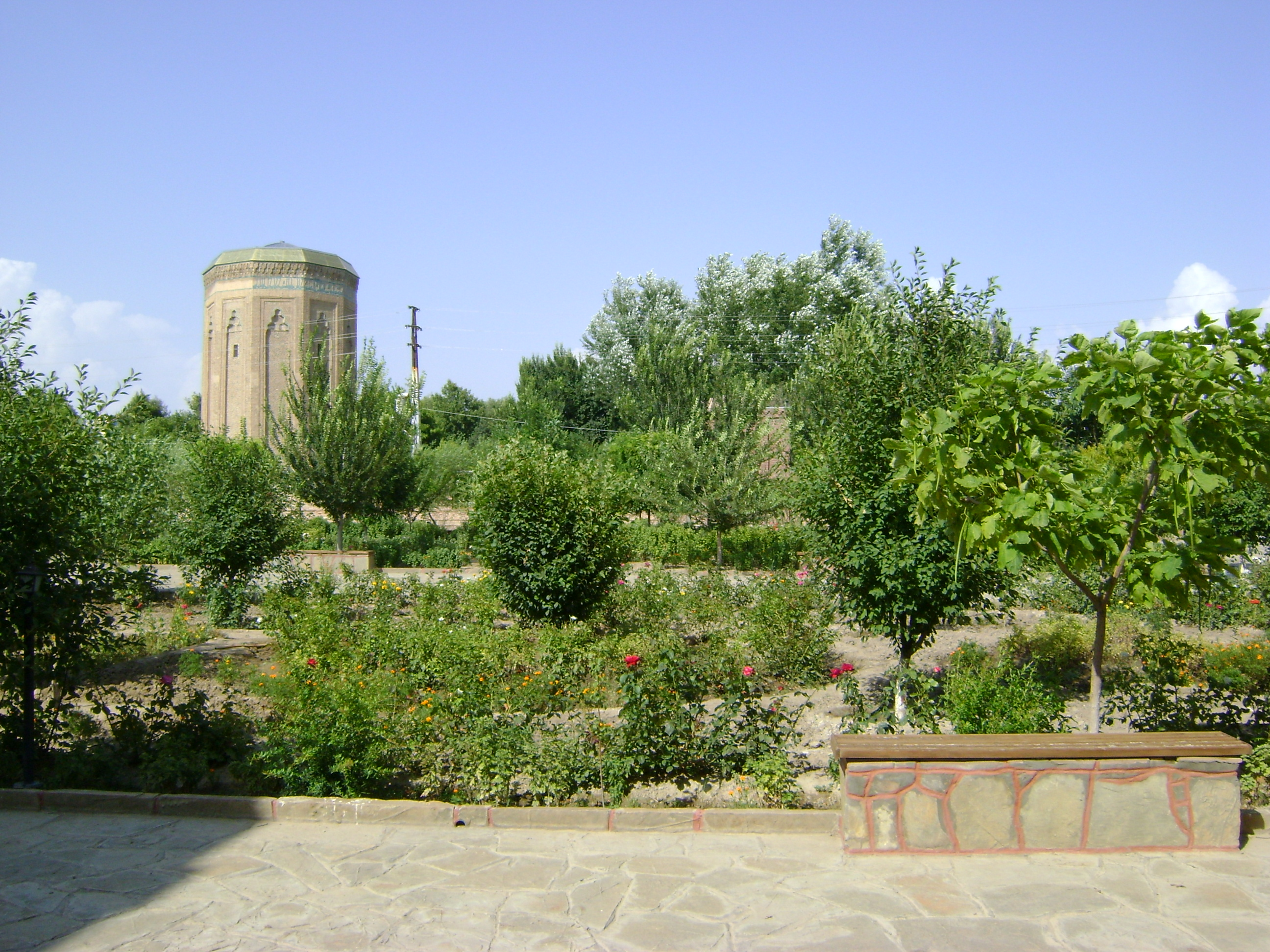 Nakhchivan_khan_palace_park